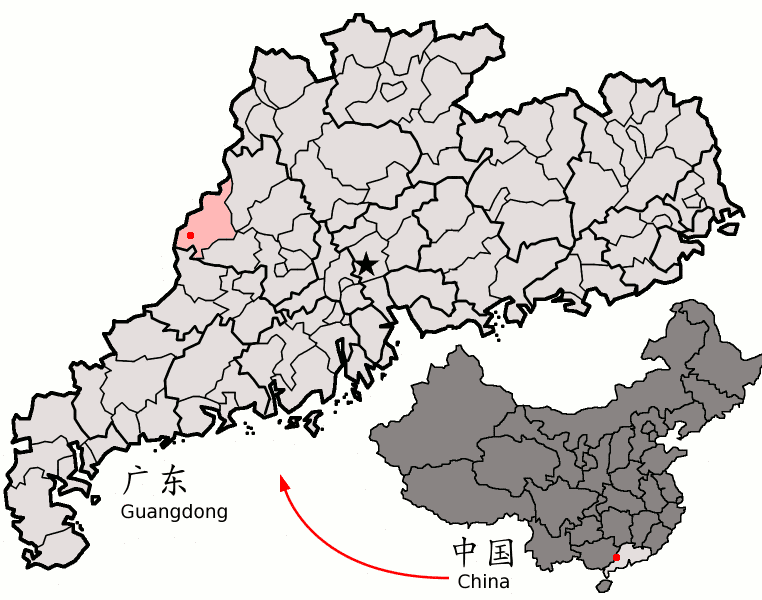 Location of Fengkai within Guangdong province of China